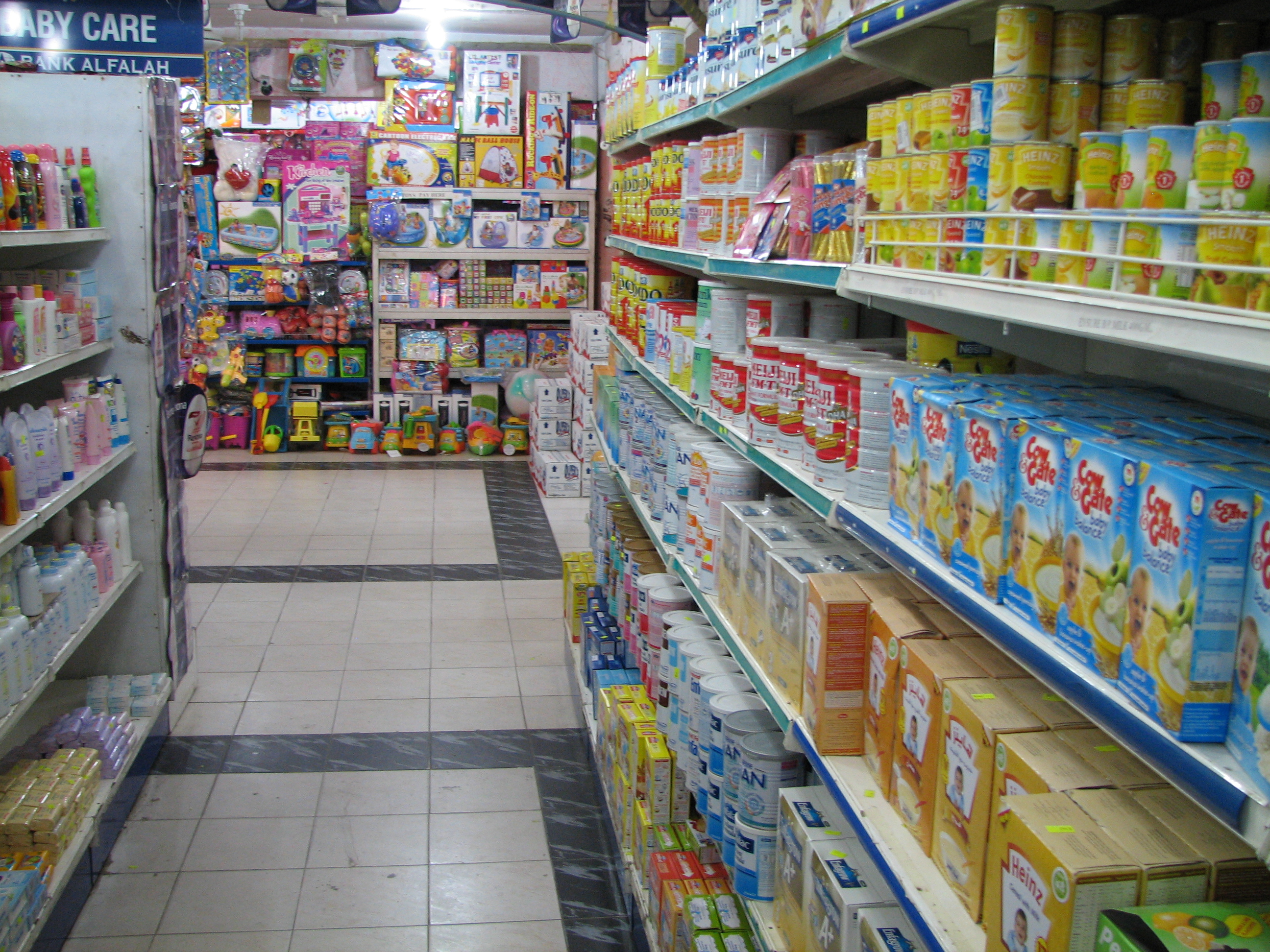 Baby food section at a market (Best Price) in Islamabad, Pakistan.